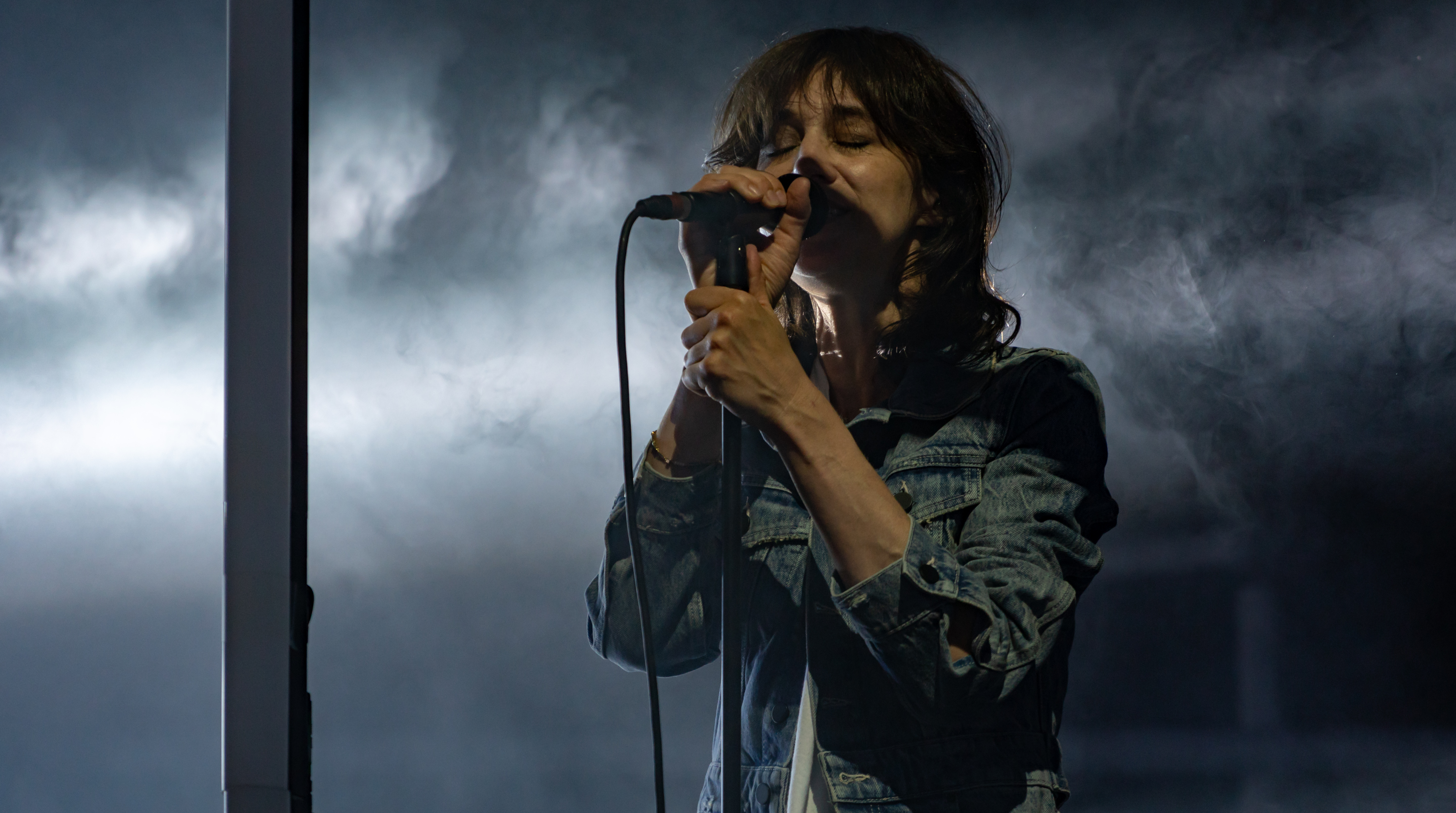 WOWGoth090818-139